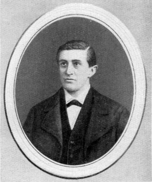 Portrait of the canary breeder Wilhelm Trute